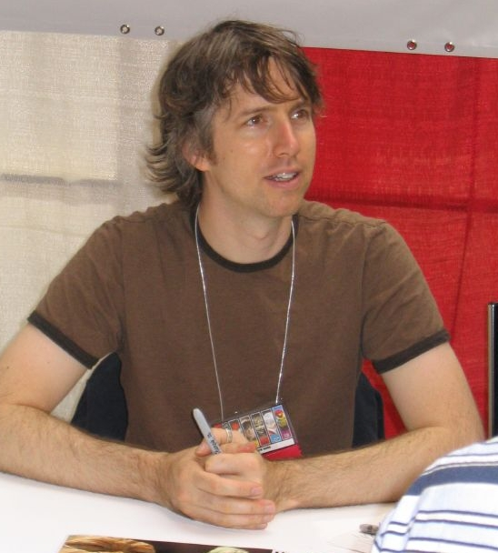 American sound editor and actor Matthew Wood at the 2005 Fan Expo Canada.